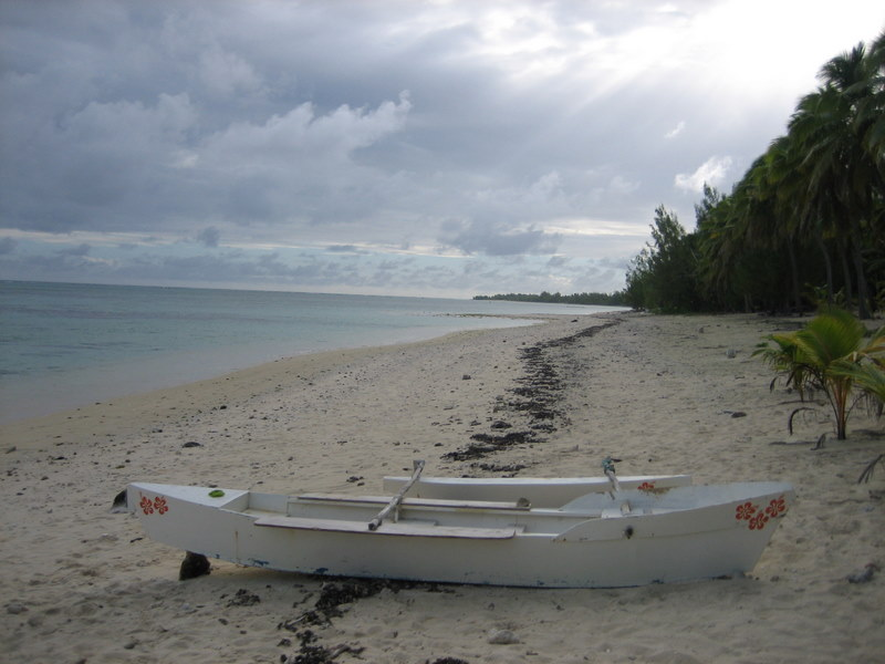 Photo by Ian Sewell. Photo taken of the beach on Aitutaki during the filming of Survivor: Cook Islands in July 2006. The beach was deserted, as the island's hotels were full of production crew.